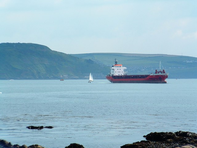 At anchor in Plymouth Sound Deep anchorage inside Plymouth Breakwater, Bovisand in the background